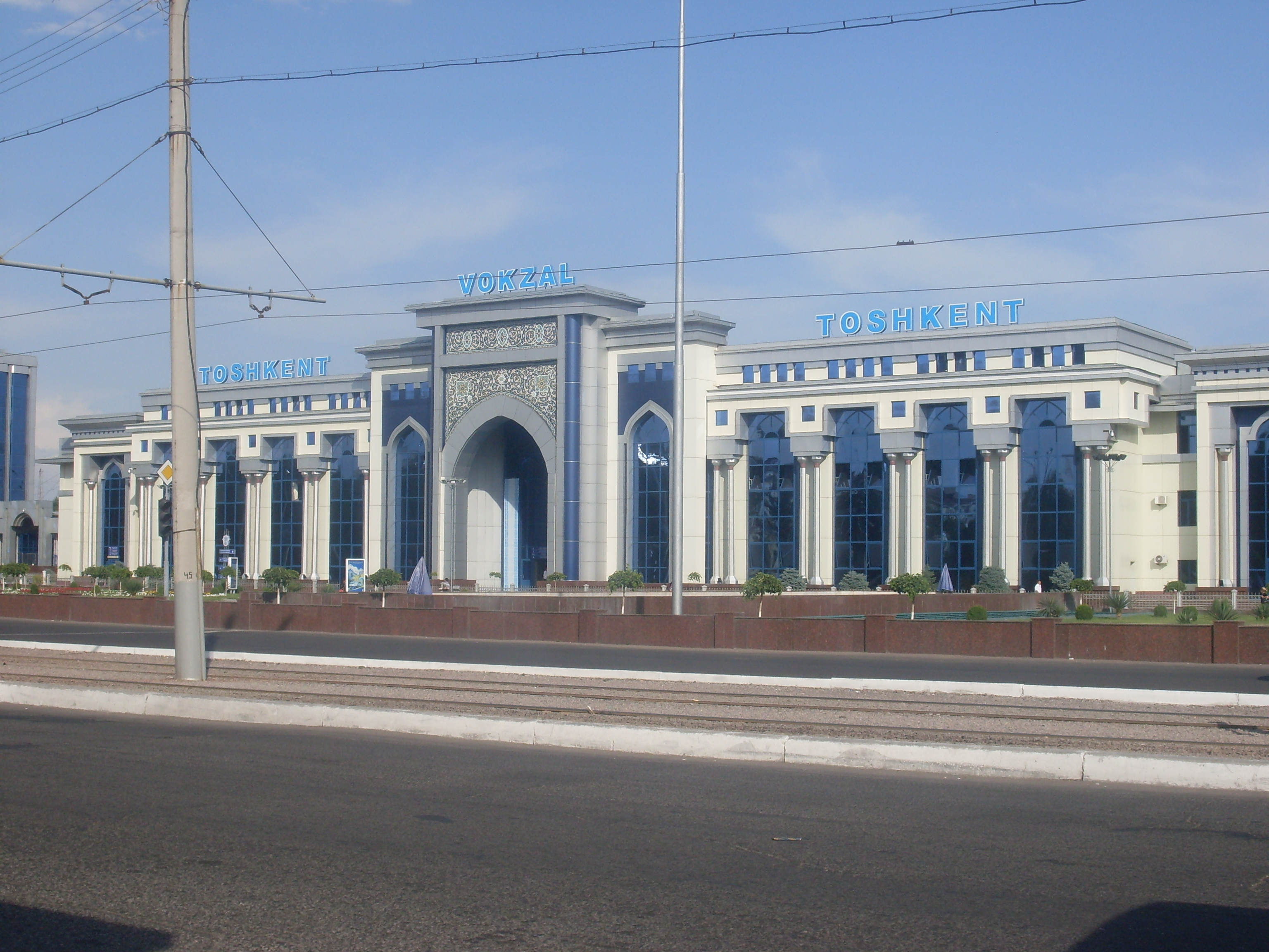 Tashkent Station